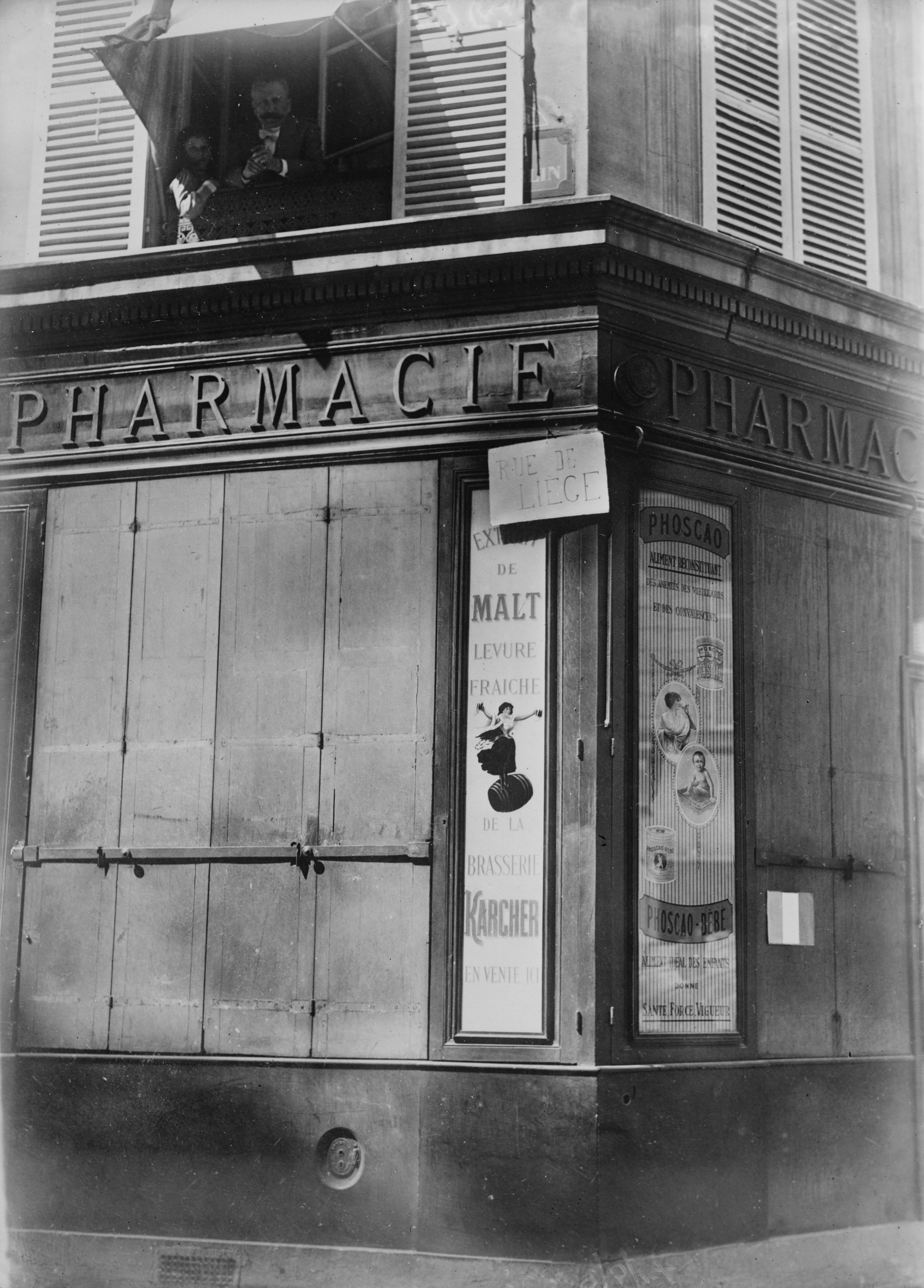 Rue de Liege, Paris (recently Rue de Berlin) Photograph shows the Rue de Liege in Paris which was remamed from the Rue de Berlin at the beginning of World War I.